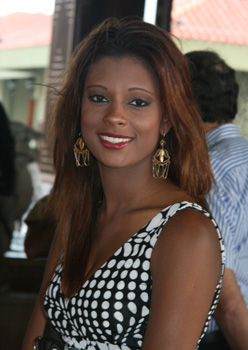 Miss Mauritius 2007 - Melody Selvon in Miss World 2007, Sanya, China